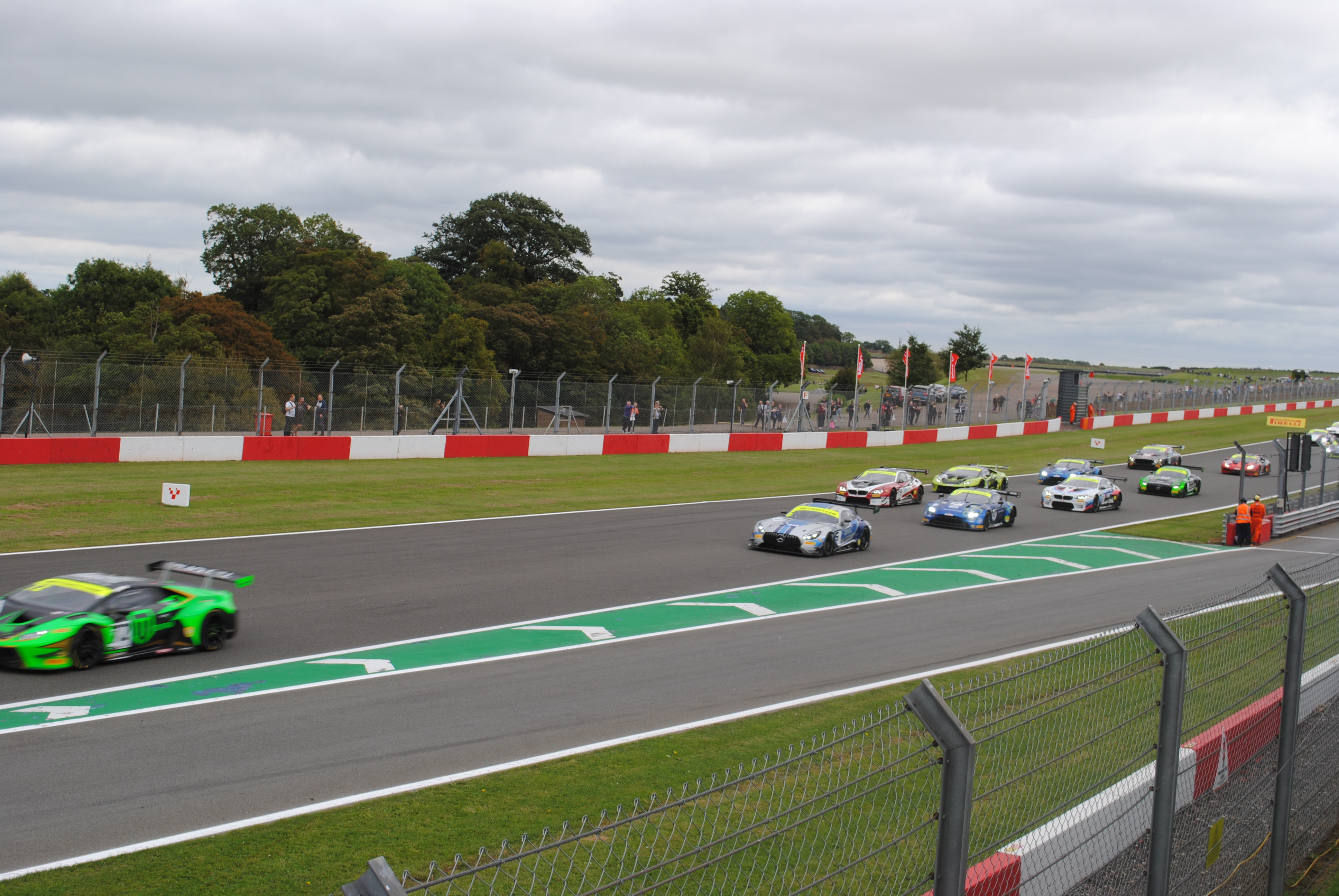 A field of GT3 cars in the final round of the British GT Championship.